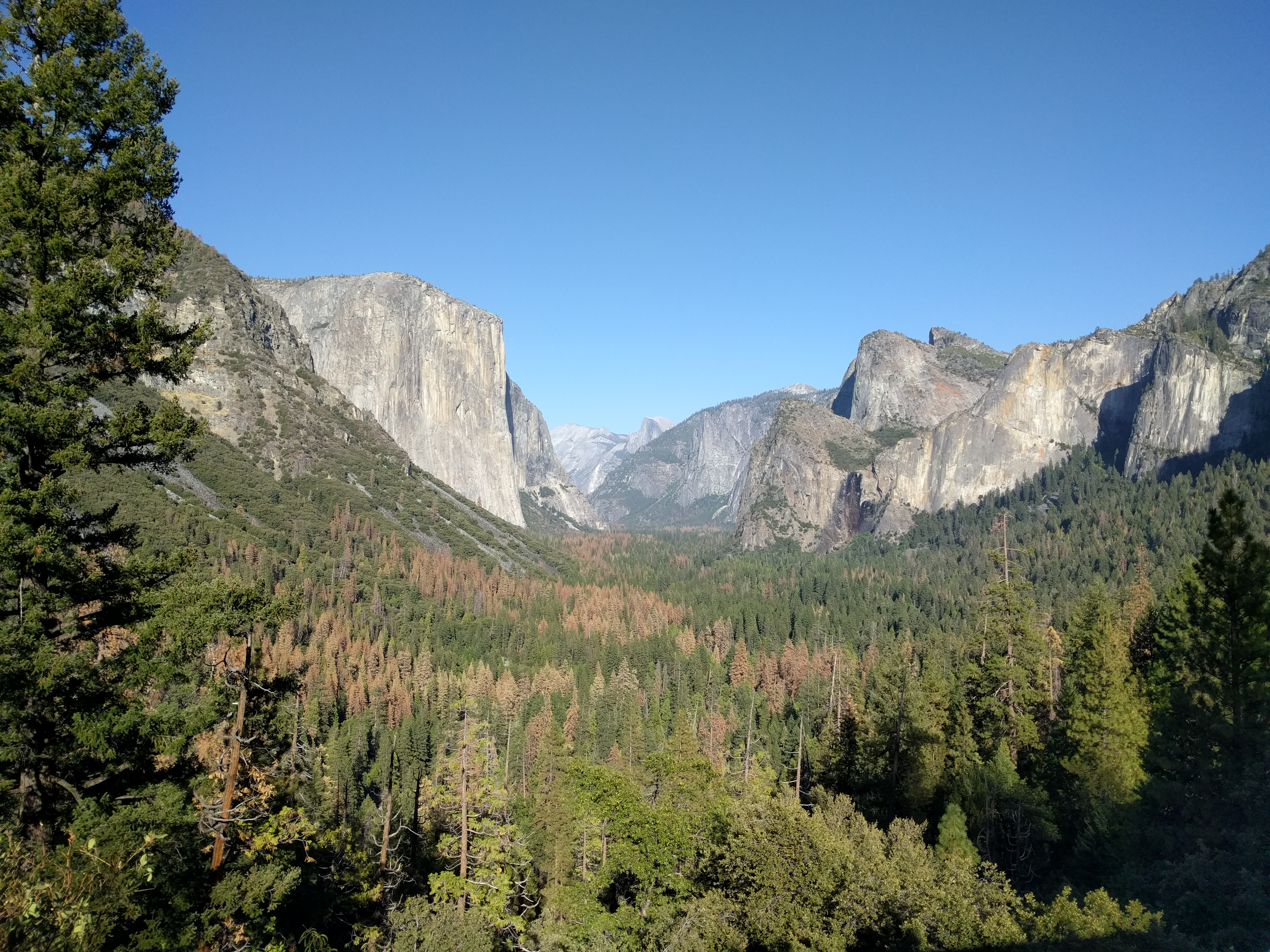 Yesemite's Tunne View as seen on Fall 2016 on a sunny day.